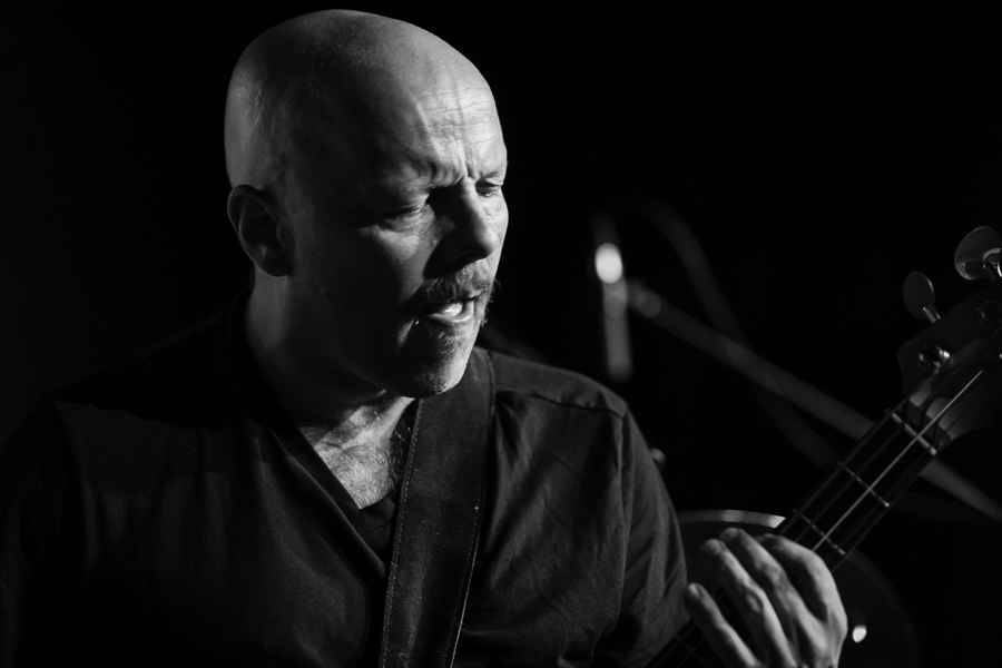 Ingebrigt Håker Flaten in a concert with Krokofant at Privat Bar. The concert was part of Kongsberg Jazzfestival and took place on 03. July 2019 in Kongsberg. Lineup:Tom Hasslan (guitar)Axel Skalstad (drums)Jørgen Mathisen (saxophone)Ståle Storløkken (organ)Ingebrigt Håker Flaten (bass guitar)